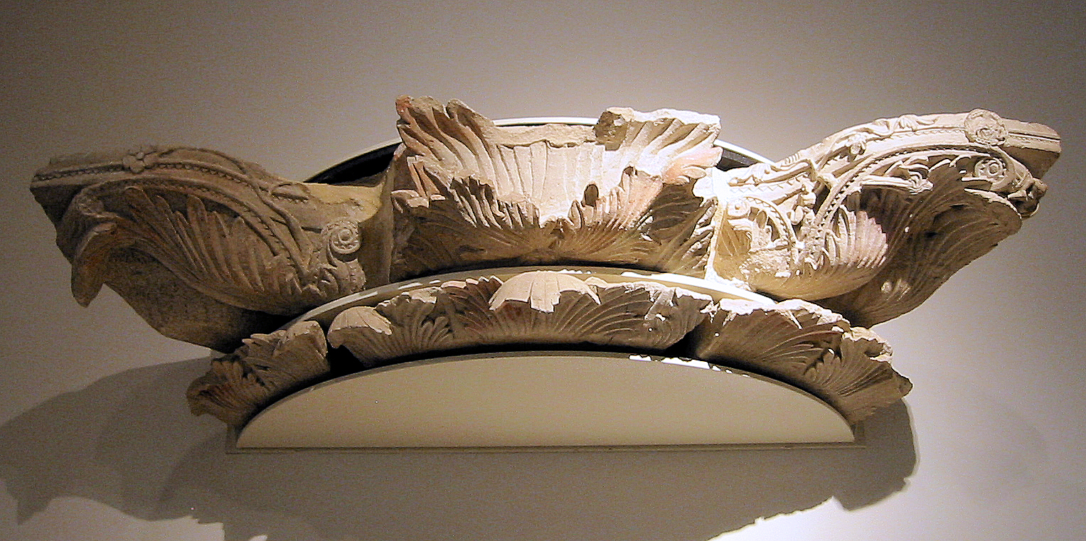 Canopy of stupa C1, Hadda. Guimet Museum. Personal photograph 2006.